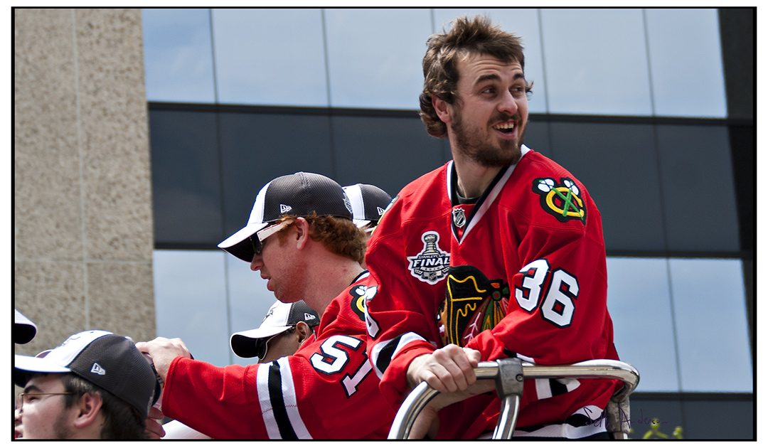 #36 Dave Bolland and #51 Brian Campbell @ Stanley Cup Victory parade 2010